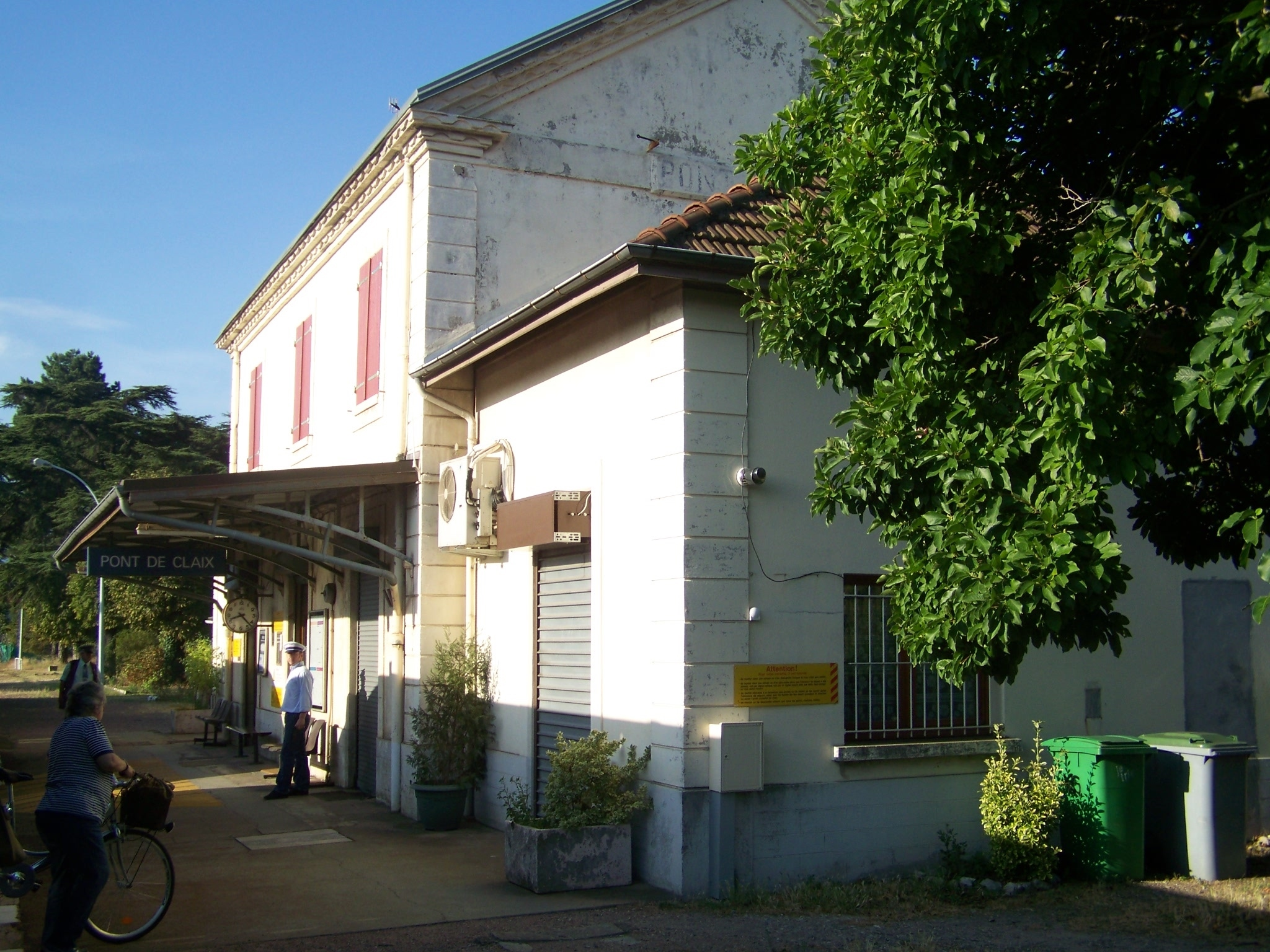 Sight of the little commune of Pont de Claix railway station, in Isère, France.